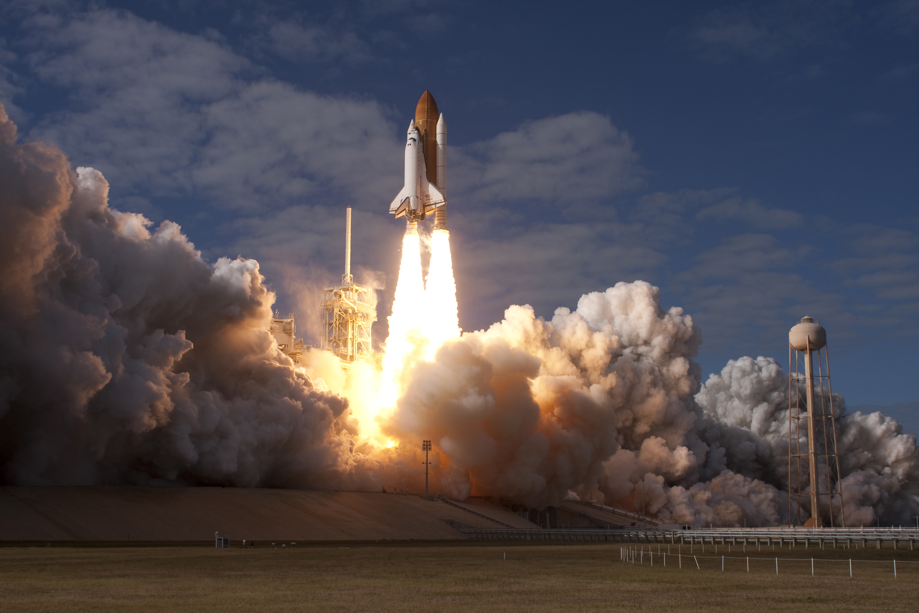 CAPE CANAVERAL, Fla. - Like a phoenix rising from the flames, space shuttle Atlantis emerges from the exhaust cloud building on Launch Pad 39A at NASA's Kennedy Space Center in Florida. Liftoff on its STS-129 mission came at 2:28 p.m. EST Nov. 16. Aboard are crew members Commander Charles O. Hobaugh; Pilot Barry E. Wilmore; and Mission Specialists Leland Melvin, Randy Bresnik, Mike Foreman and Robert L. Satcher Jr. On STS-129, the crew will deliver two Express Logistics Carriers to the International Space Station, the largest of the shuttle's cargo carriers, containing 15 spare pieces of equipment including two gyroscopes, two nitrogen tank assemblies, two pump modules, an ammonia tank assembly and a spare latching end effector for the station's robotic arm. Atlantis will return to Earth a station crew member, Nicole Stott, who has spent more than two months aboard the orbiting laboratory. STS-129 is slated to be the final space shuttle Expedition crew rotation flight. For information on the STS-129 mission and crew, visit